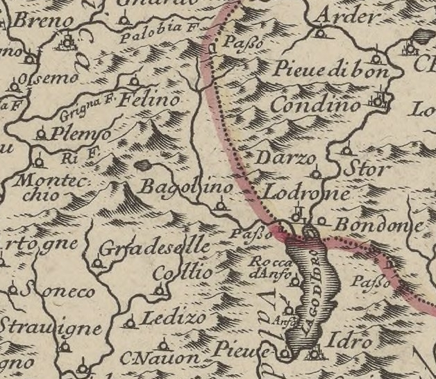 Cropped to display Bagolino and the border line.